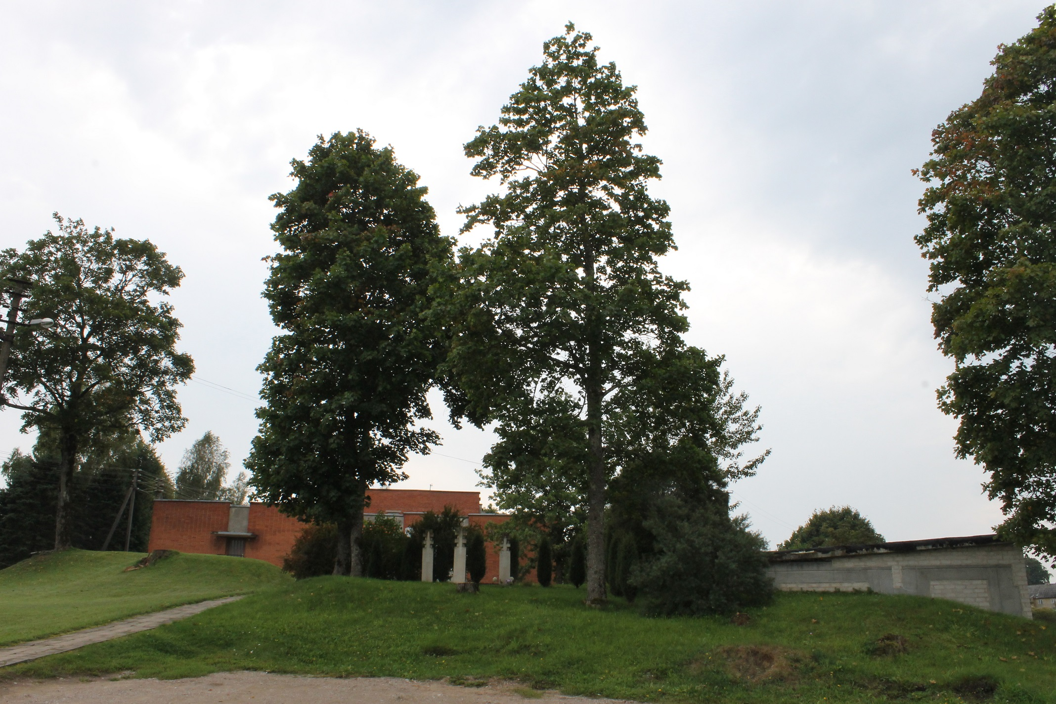 Alsėdžiai, Plungė district, LithuaniaLietuvių: Alsėdžių valsčiaus partizų laidojimo vieta, Plungės rajonas, Lietuva